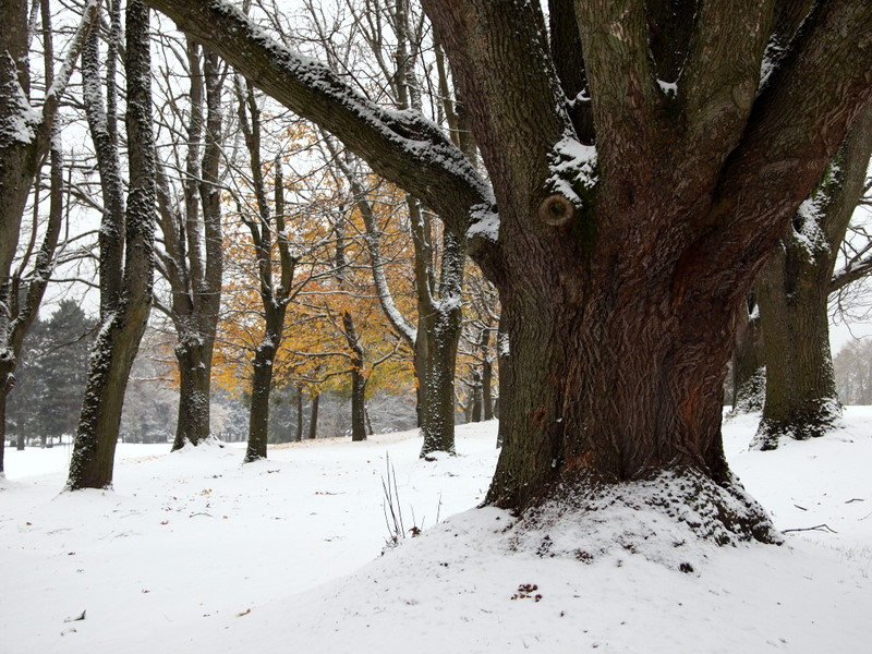 Jefferson Park trees in snow. Jefferson Park is located in the Beacon Hill neighborhood of Seattle, Washington USA